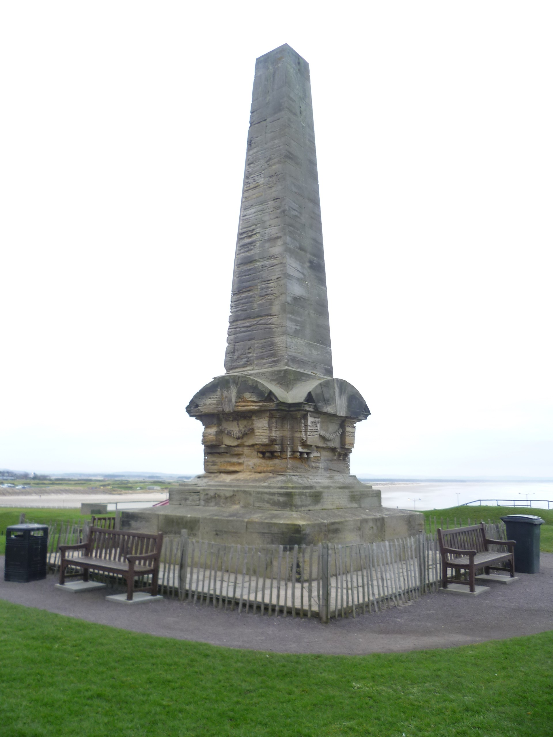 Memorial commemorating martyrs of the Scottish Reformaiton, including Patrick Hamilton and George Wishart